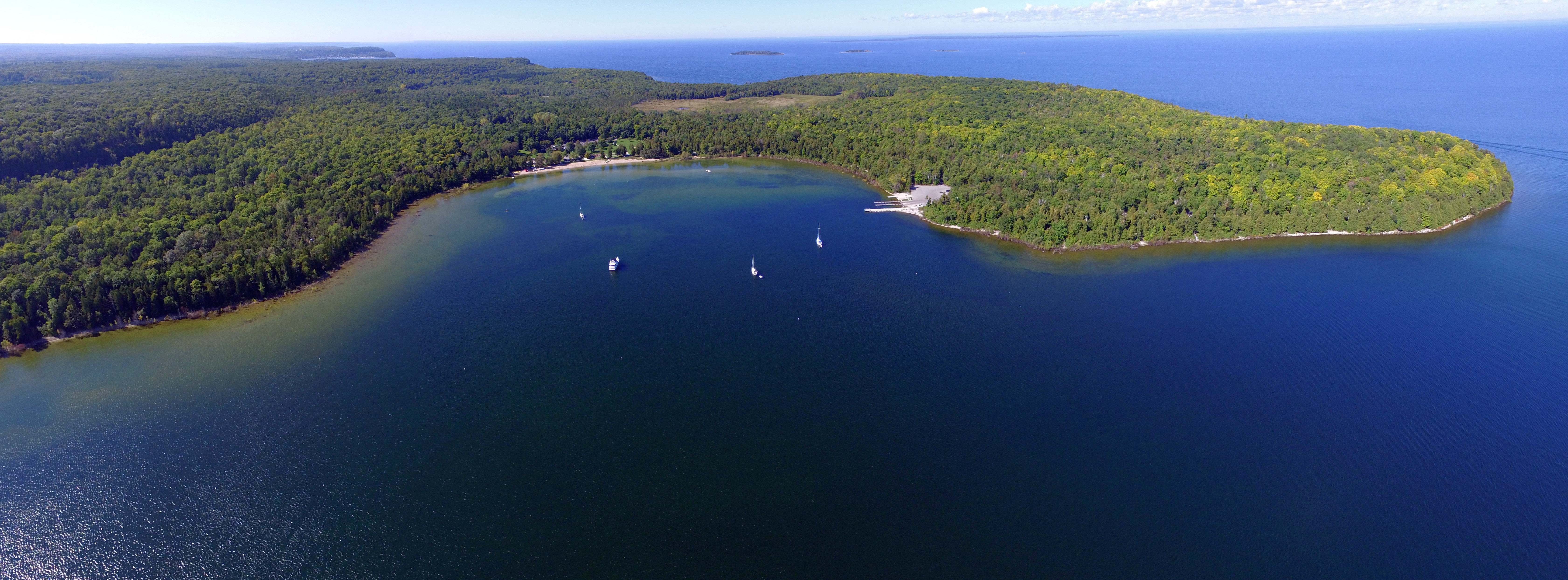 An aerial photo of Nicolet Bay at Peninsula State Park in Door County, WI.